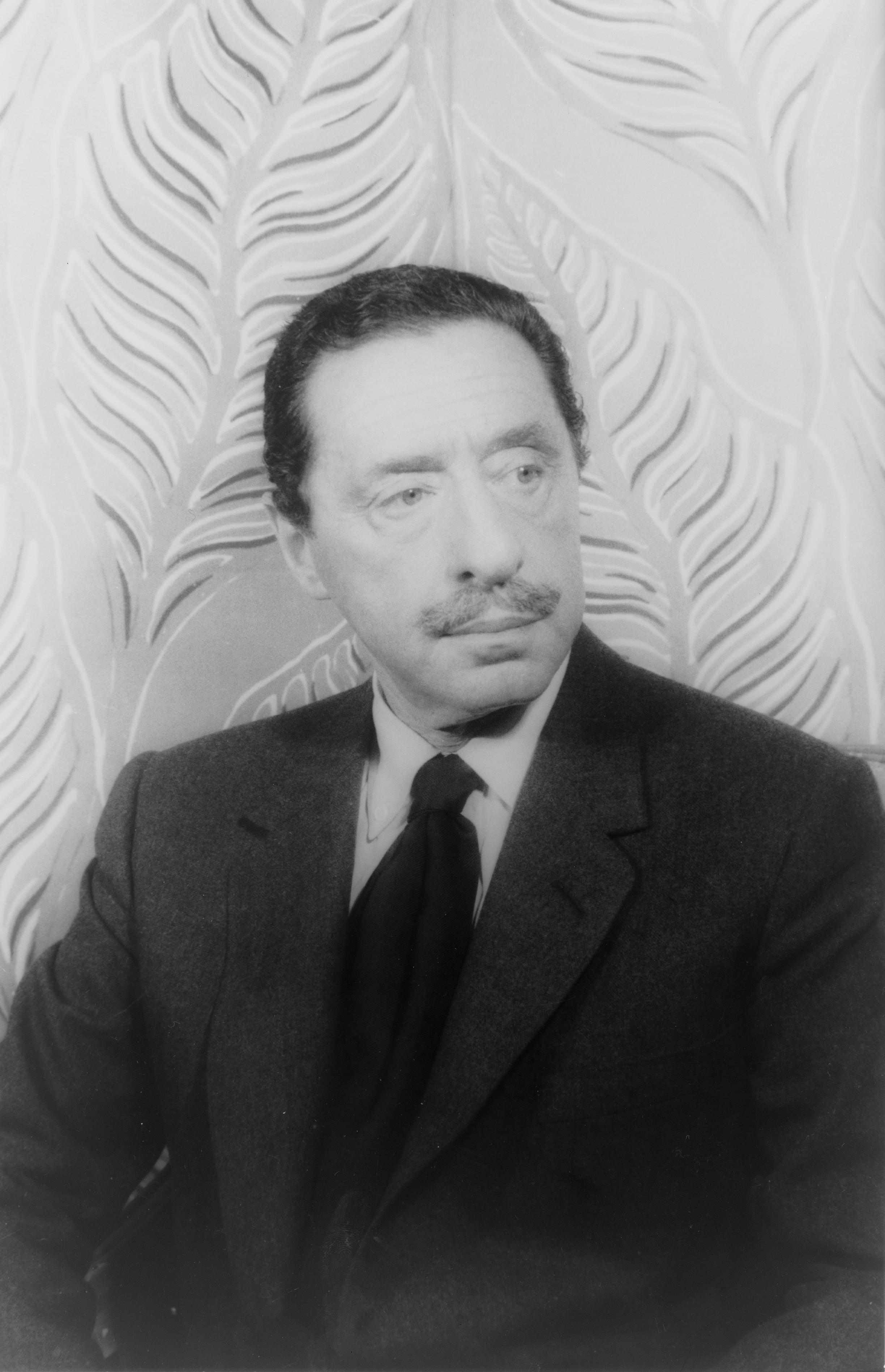 Harold Arlen, 17 May 1960